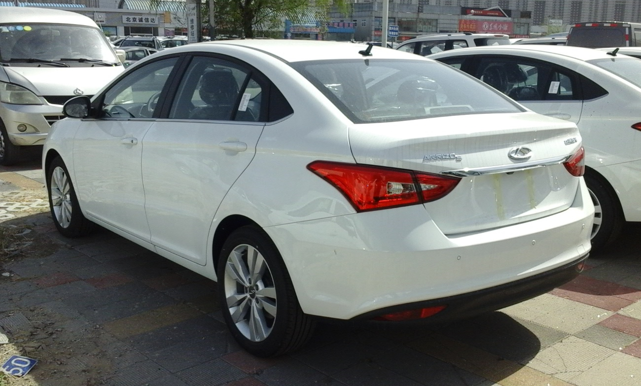 Chery Arrizo 5 photographed in Beijing, China.